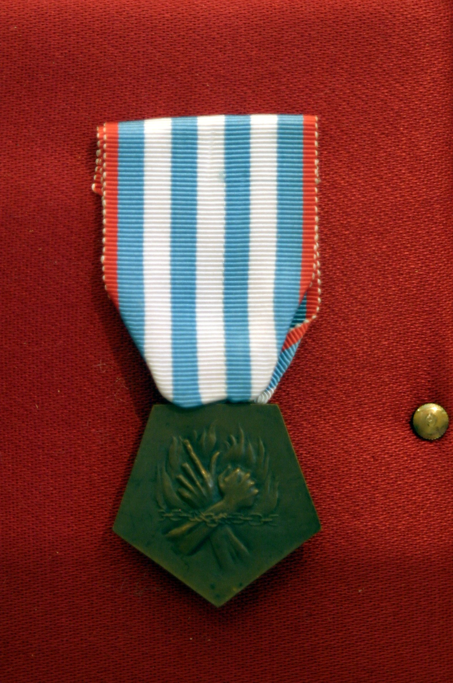 Medal awarded to survivors of the Nazi concentration camps